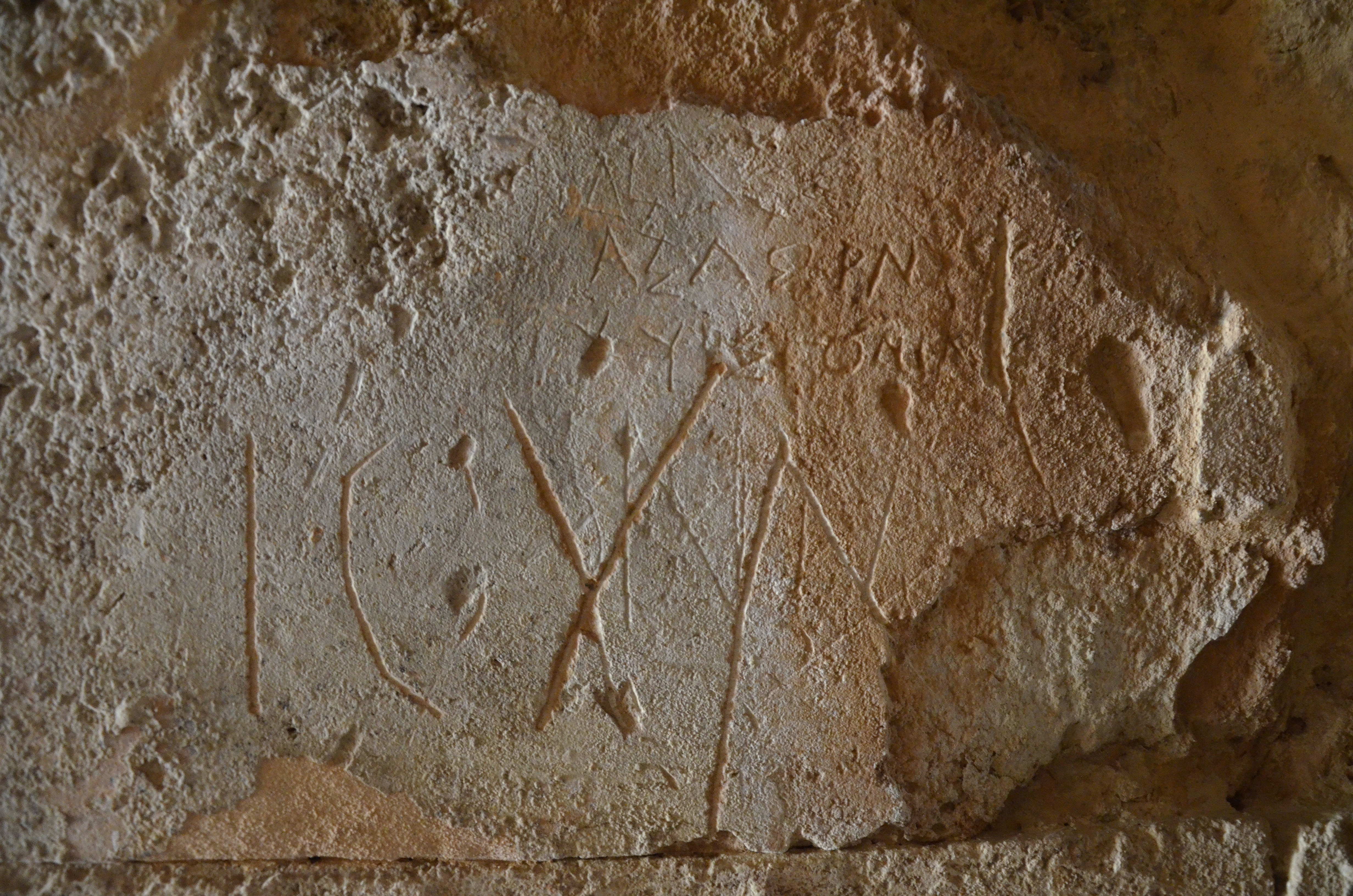 Graffiti of ancient athletes in the Ancient Stadium of Nemea, Ancient Nemea, Greece